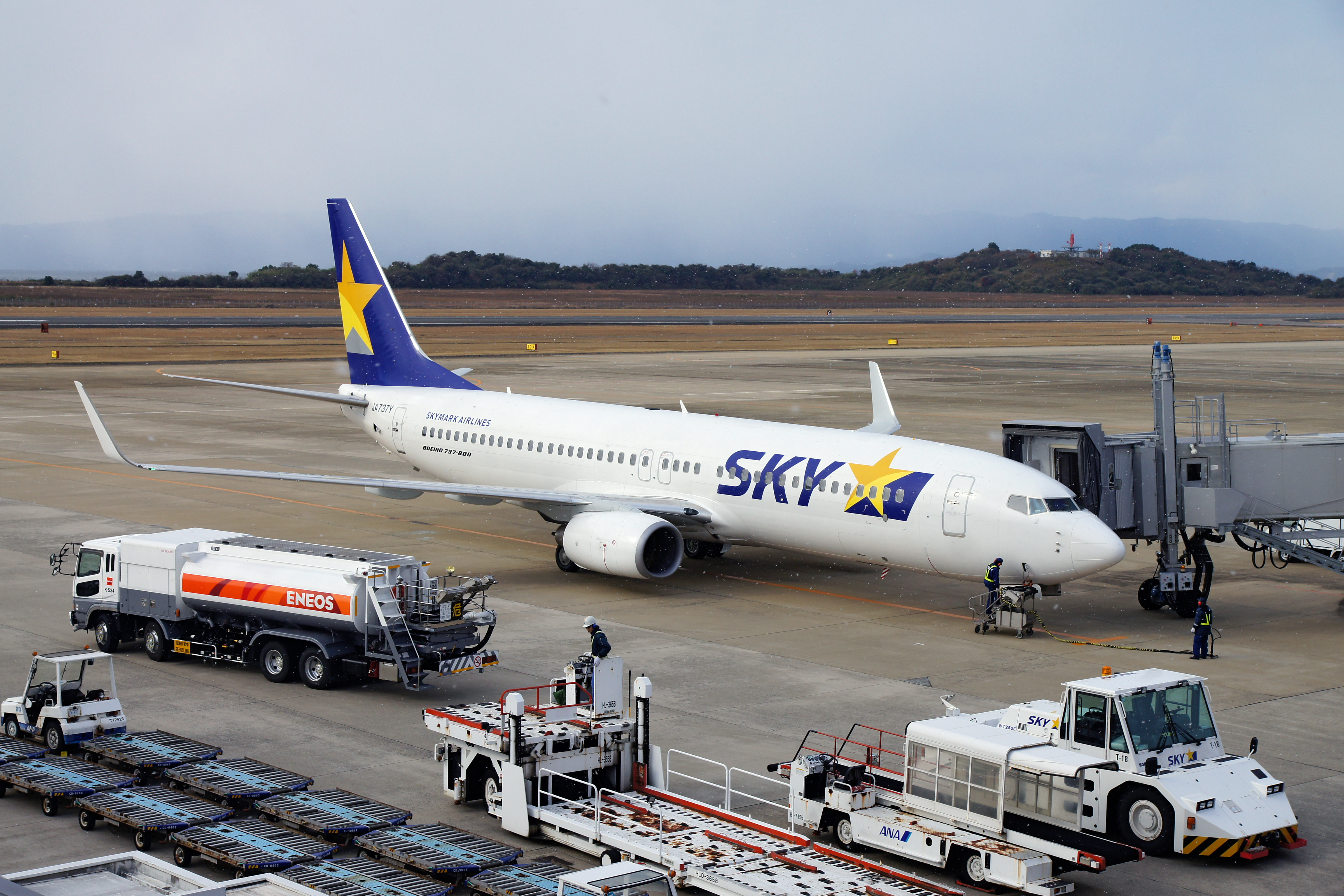 Nagasaki Airport in Omura, Nagasaki prefecture, Japan